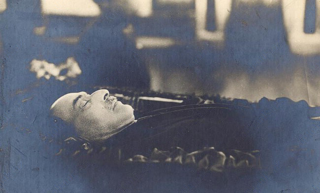 Nariman Narimanov on deathbed